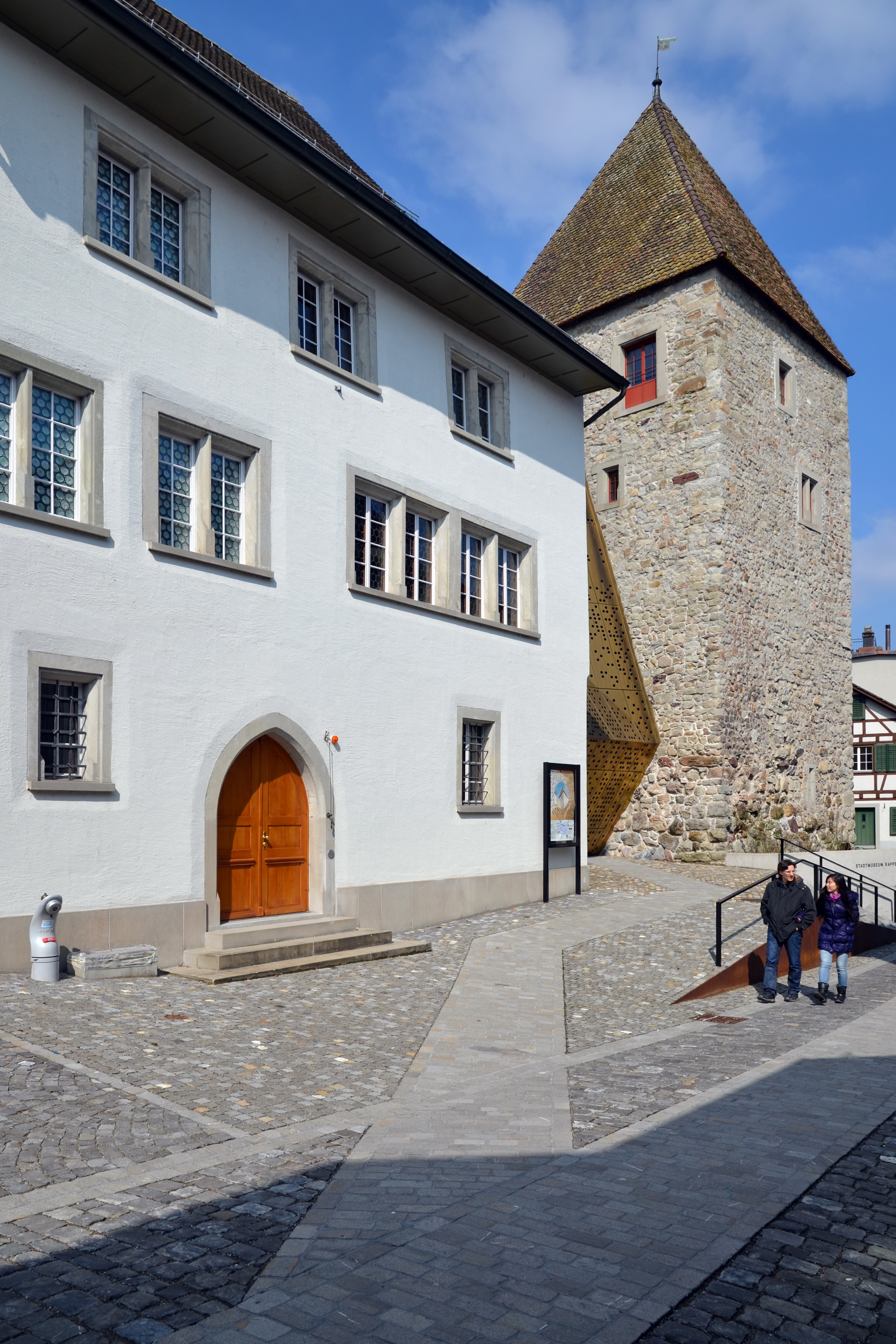 Finished renewal in 2010/12 of the Stadtmuseum buildings in Rapperswil (Switzerland)